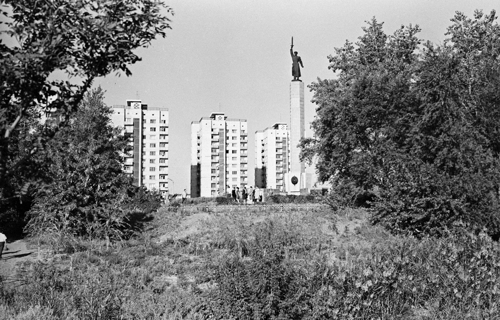 “Monument to Cheka officials”. A monument to Stalingrad defenders, warriors of the 10th NKVD Division and police officers who perished defending the city in 1942-1943. Unveiled on December 28, 1947 to a project by artist and architect F. Koimshidi. The sculptural works are made by a group of Leningrad sculptors M. Anikushin, People's Artist of the USSR, sculptors G. Kosov, V. Stamov. Ploshchad Chekistov.